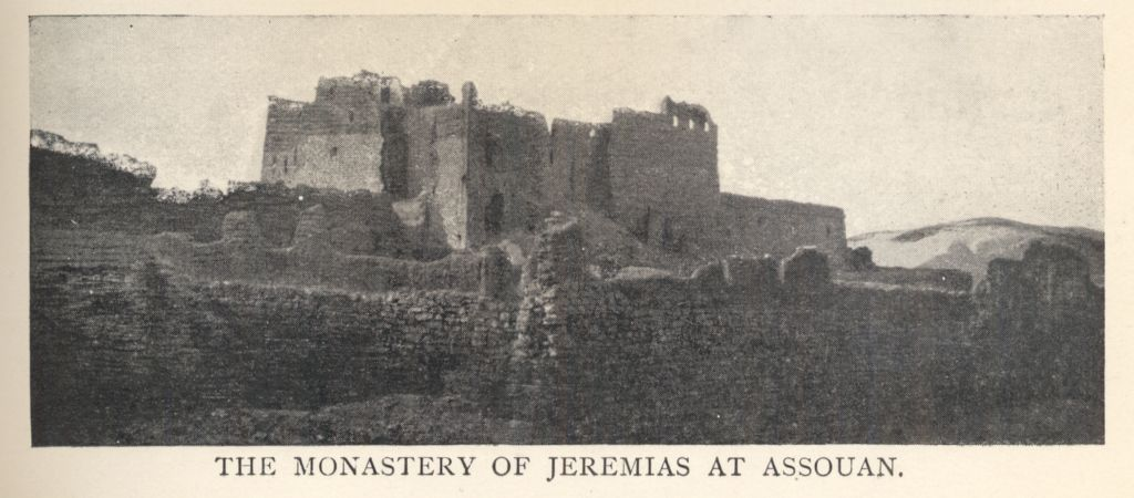 A large stone building surrounded by walls. Black- and- white photograph.